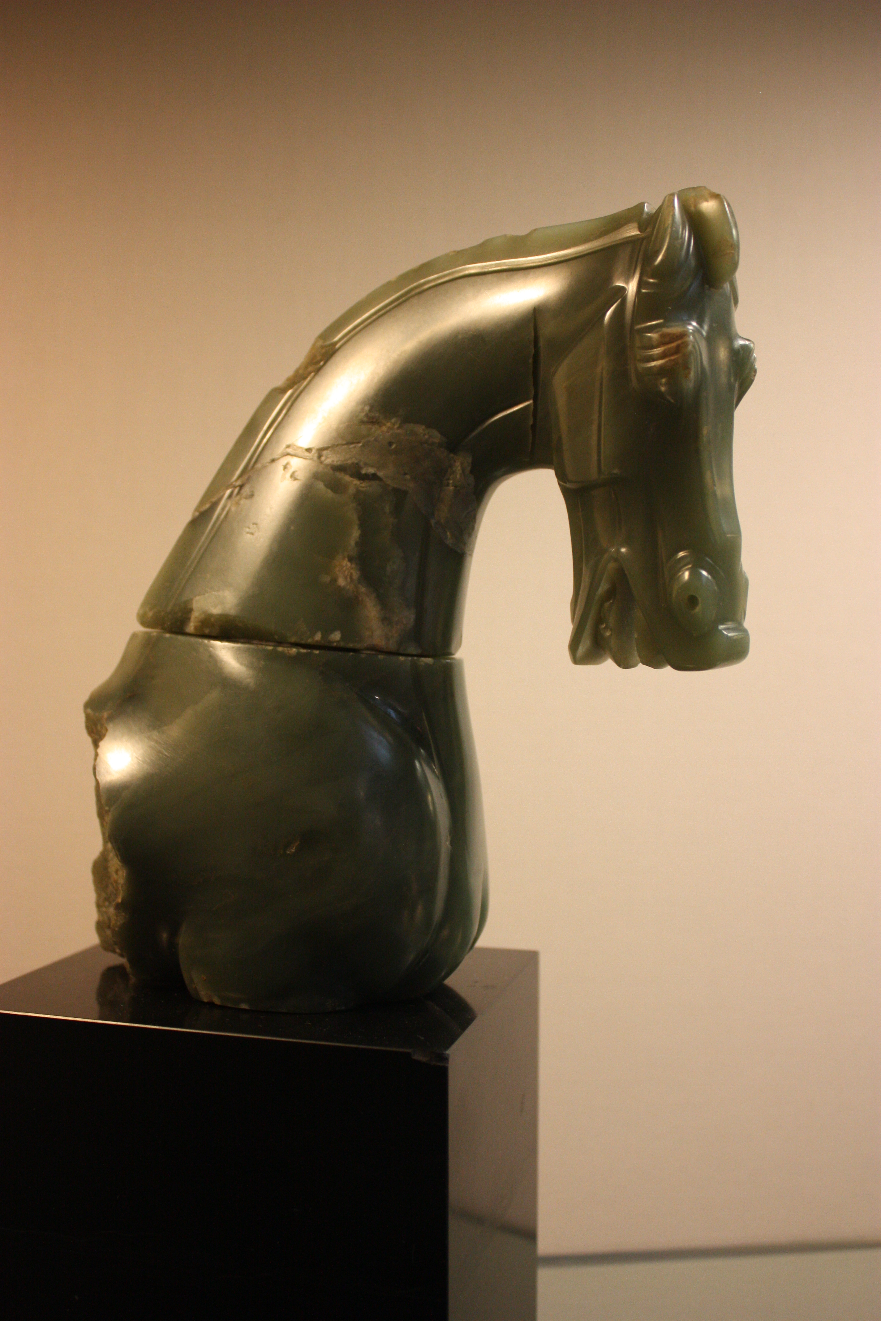 Head and Partial Torso of a Horse' Jade figure China (Han dynasty) 206 BC - AD 220 Museum no. A.16-1935 This horse's head comes from a tomb of the Han dynasty (206 BC - AD 220). By this period it was common in China for tombs to be highly decorated and for beautiful objects to be buried alongside the body, since it was thought that the burial place became the home for the immortal soul. Jade was especially important in this process, due to its supposed magical powers to preserve the dead body. The unique nature of this head - no other animal carving in jade of its size is known - has caused uncertainty over its dating, but recent archaeological discoveries in China reinforced its assignment to the Han period. Wikipedia Loves Art at the Victoria and Albert Museum This photo of item # [1] at the Victoria and Albert Museum was contributed under the team name "va_va_val" as part of the Wikipedia Loves Art project in February 2009. Victoria and Albert Museum The original photograph on Flickr was taken by Val_McG—please add a comment to the original Flickr page whenever a use has been made on Wikipedia or another project. Project galleries on Flickr: this institution, this team